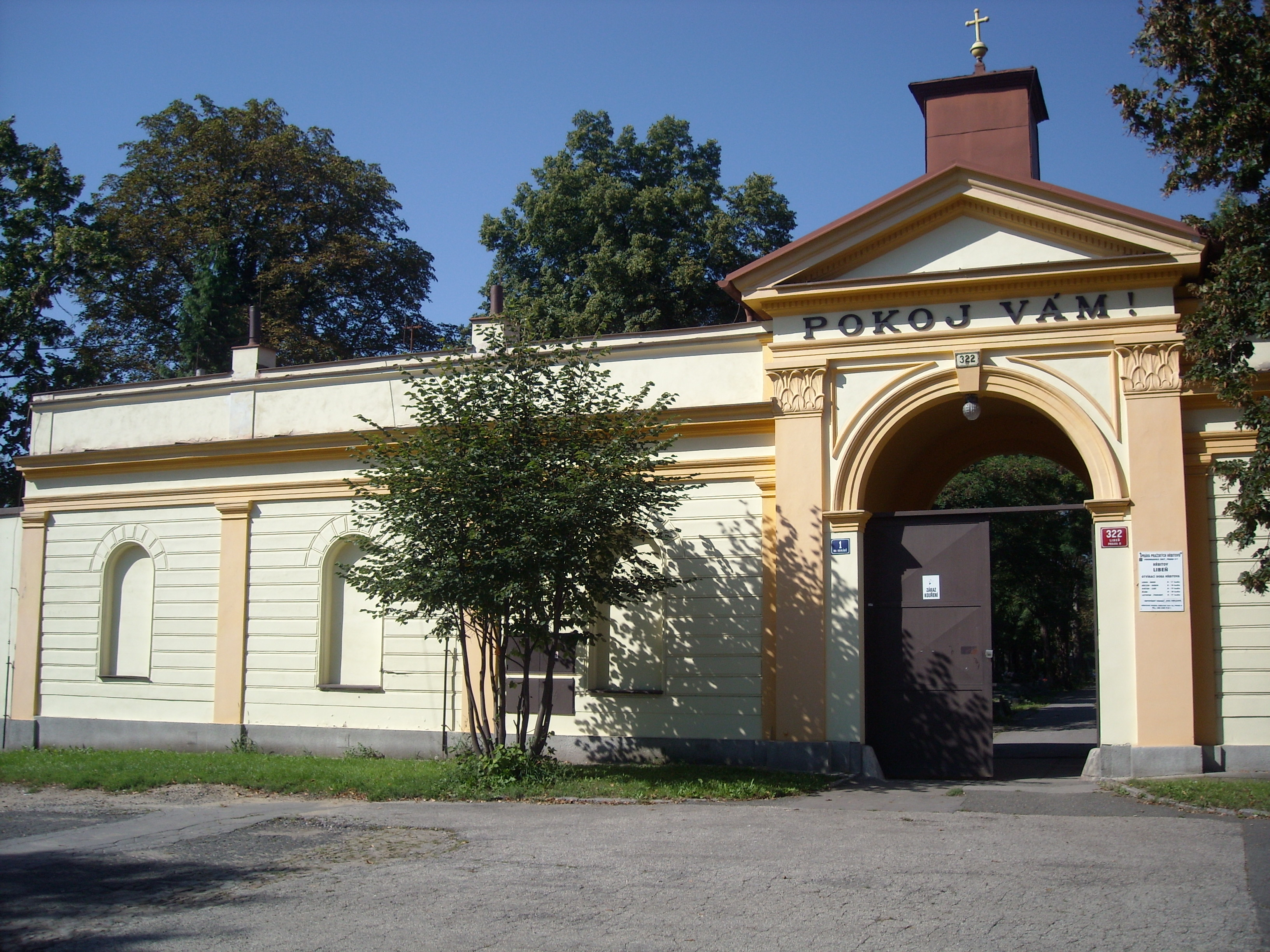 Liben cemetery, Libeň, Prague